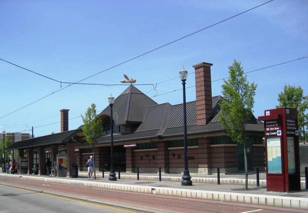 Hillsboro Central/3rd Avenue Transit Center (MAX station) in Hillsboro, Oregon